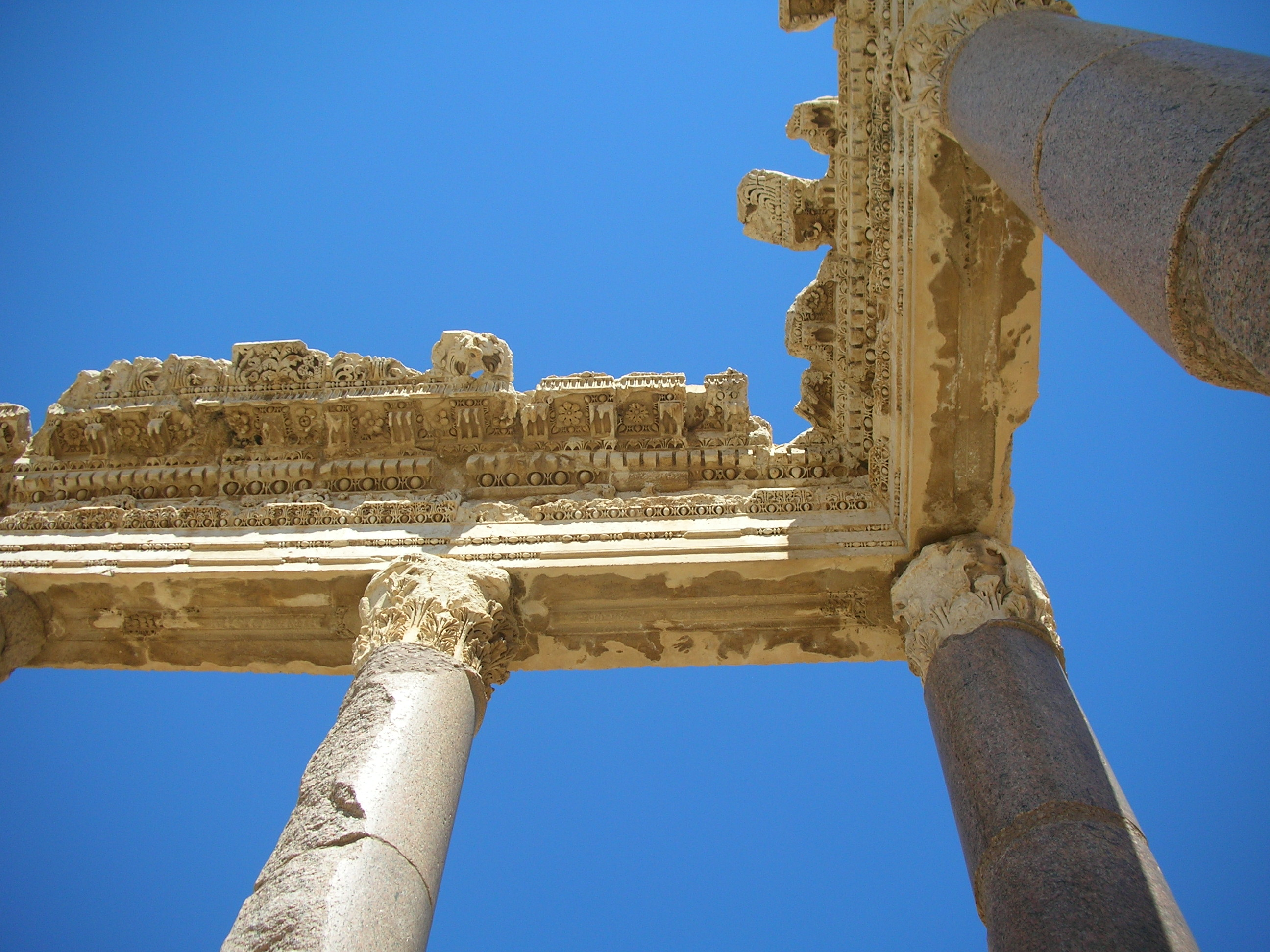 Baalbek (Lebanon)